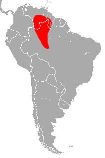 Isabelle's Ghost Bat (Diclidurus isabellus) range